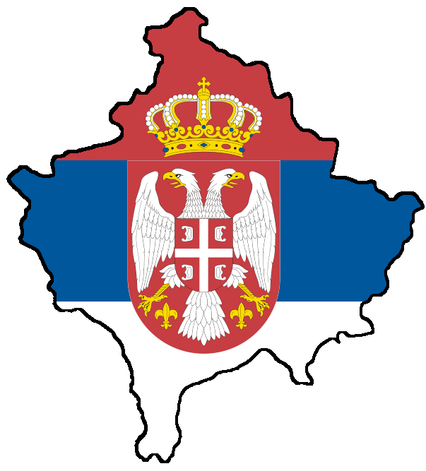 Created this image based upon image created by User:KOCOBO.